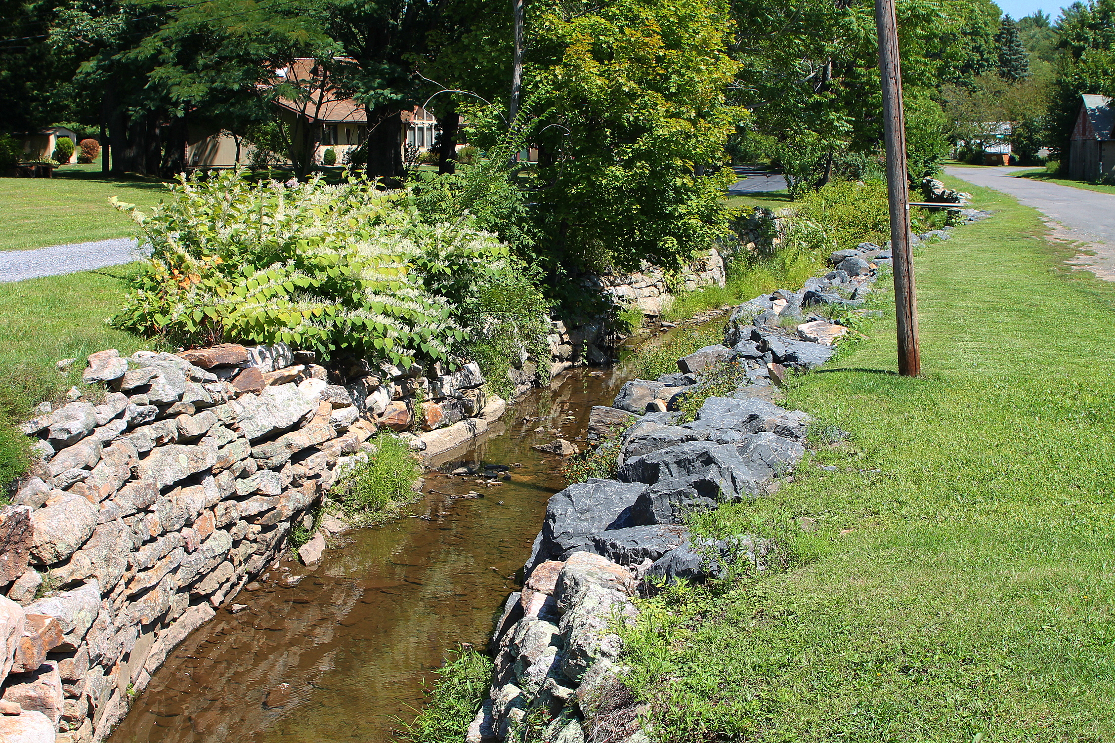 Zerbe Run near its headwaters in Trevorton looking upstream